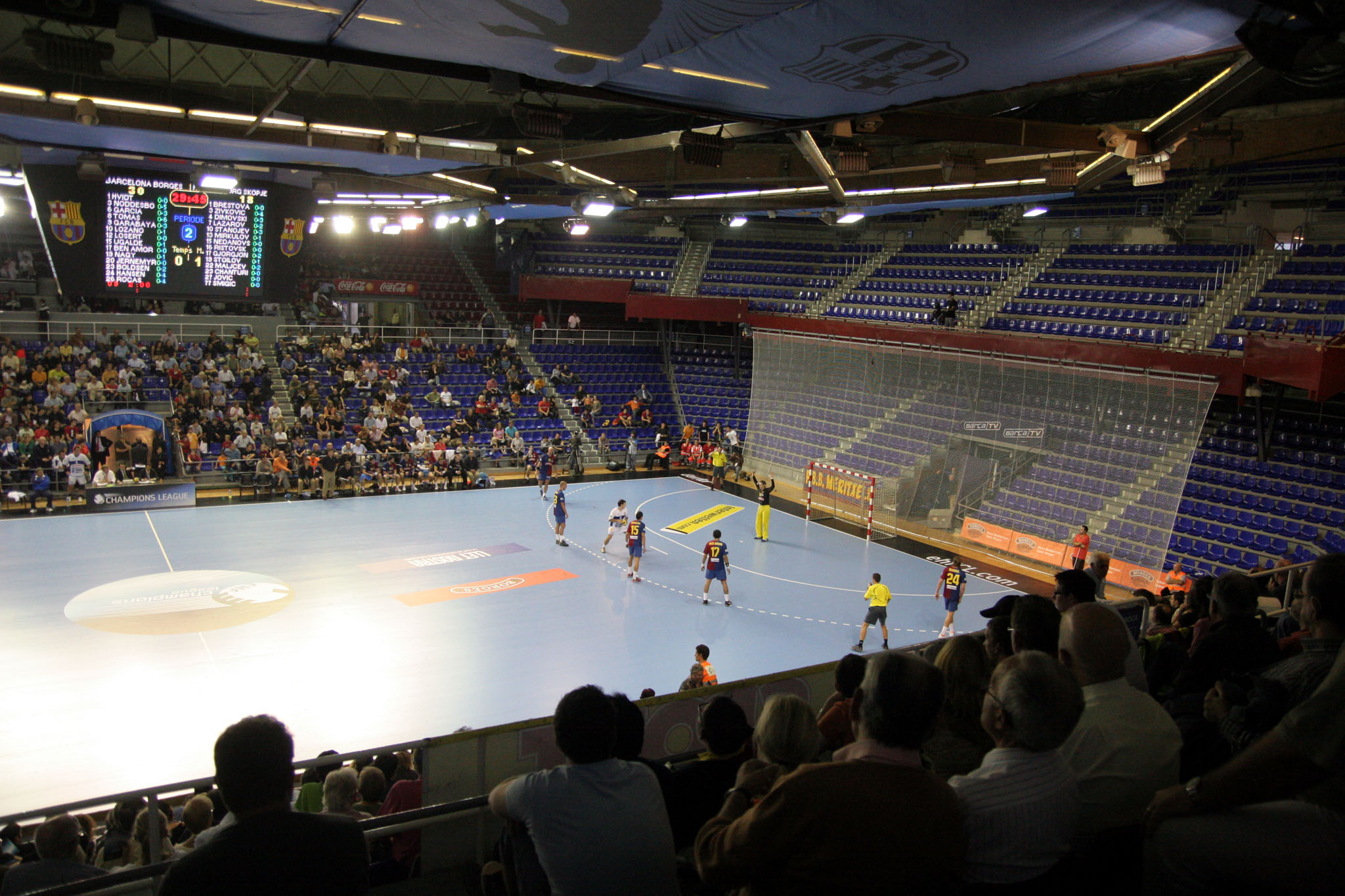 The sports arena Palau Blaugrana from FC Barcelona on October 12th, 2008 in Barcelona prior the Champions League game FC Barcelona Borges - H.C. Metalurg Skopje